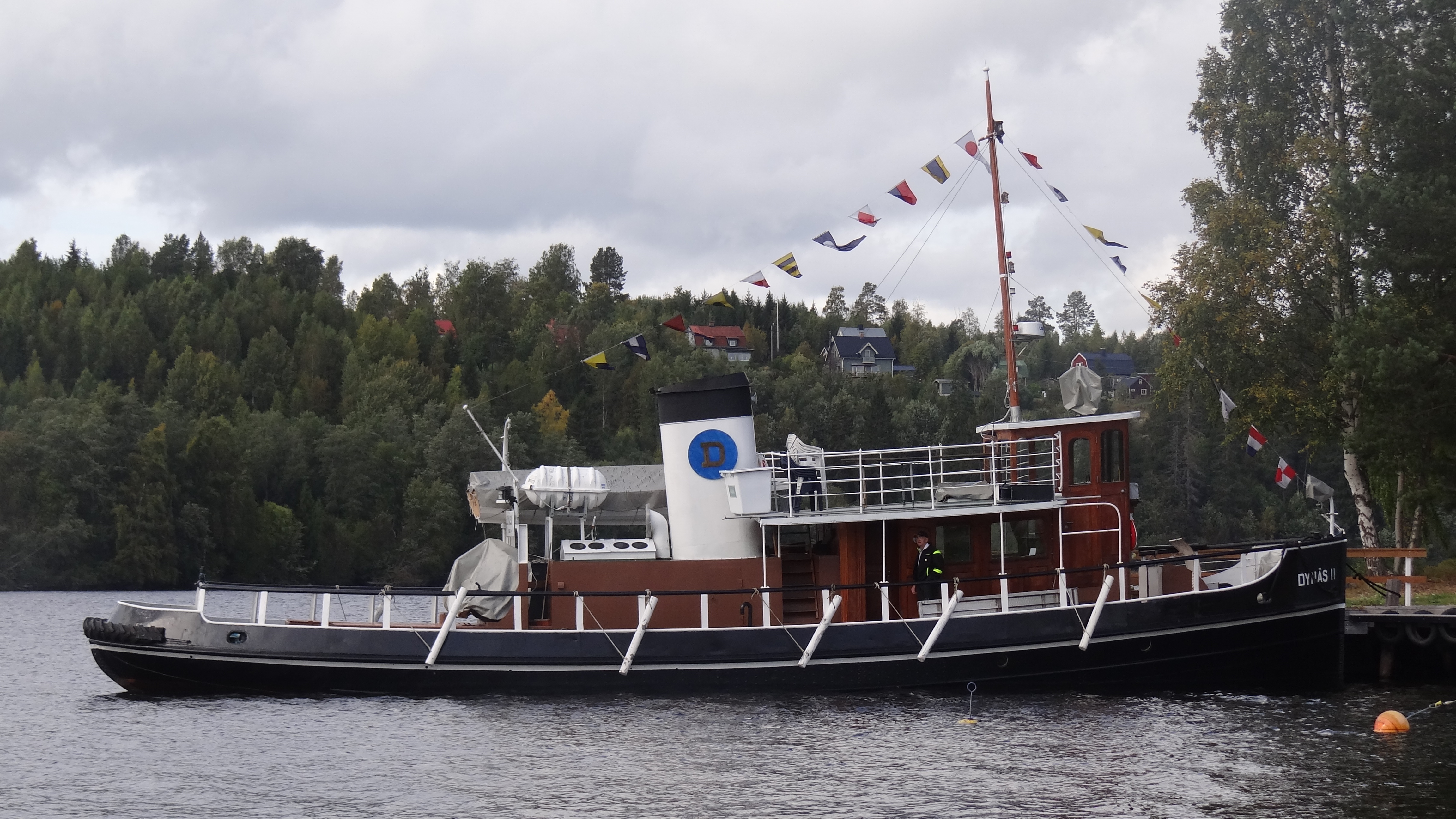 This is an image of the protected Swedish ship Dynäs II, with call sign SIDR .